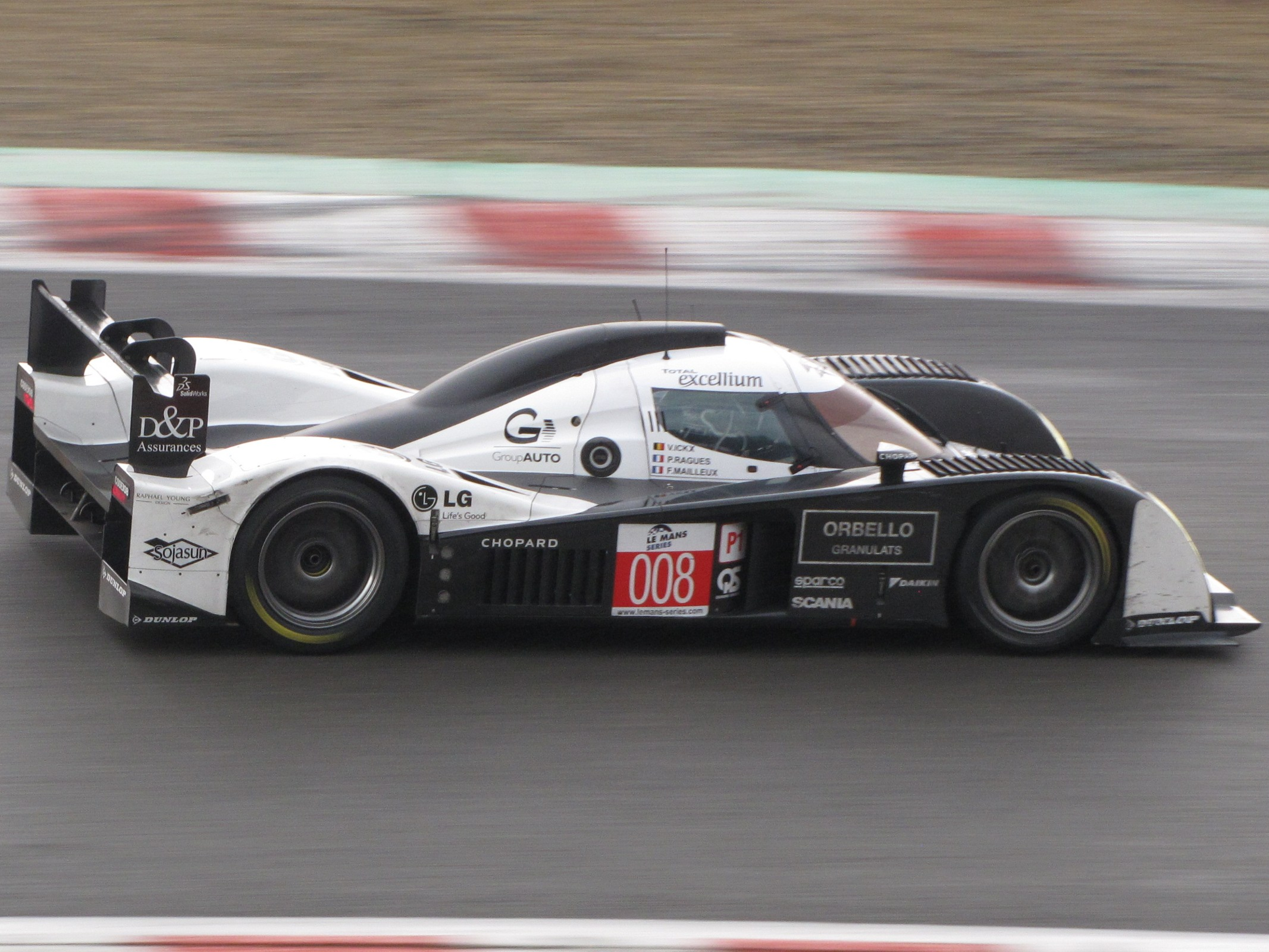 Vanina Ickx driving a Lola-Aston Martin LMP1 at 1000 km of Spa 2010.